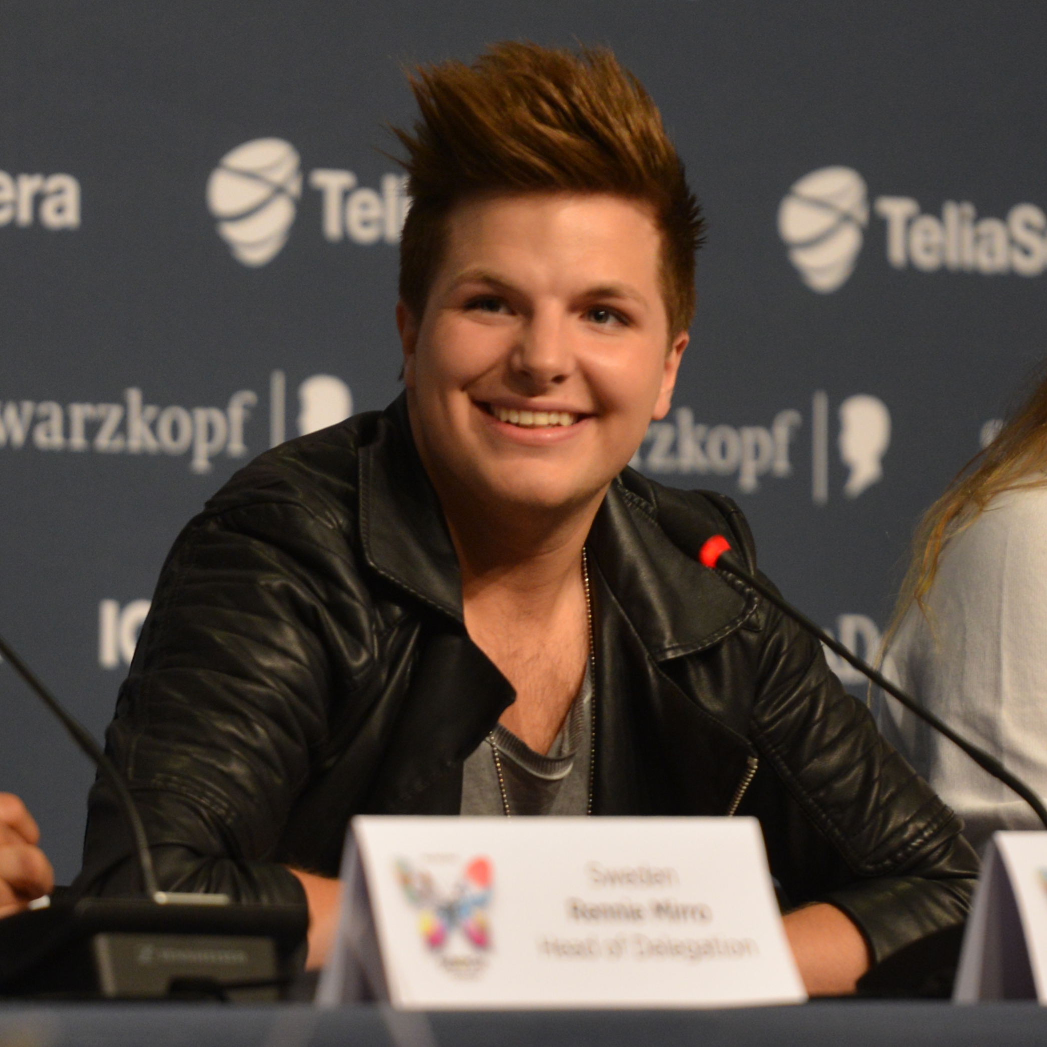 Robin Stjernberg at a press conference during the Eurovision Song Contest 2013 in Malmö. (Help translate this text)